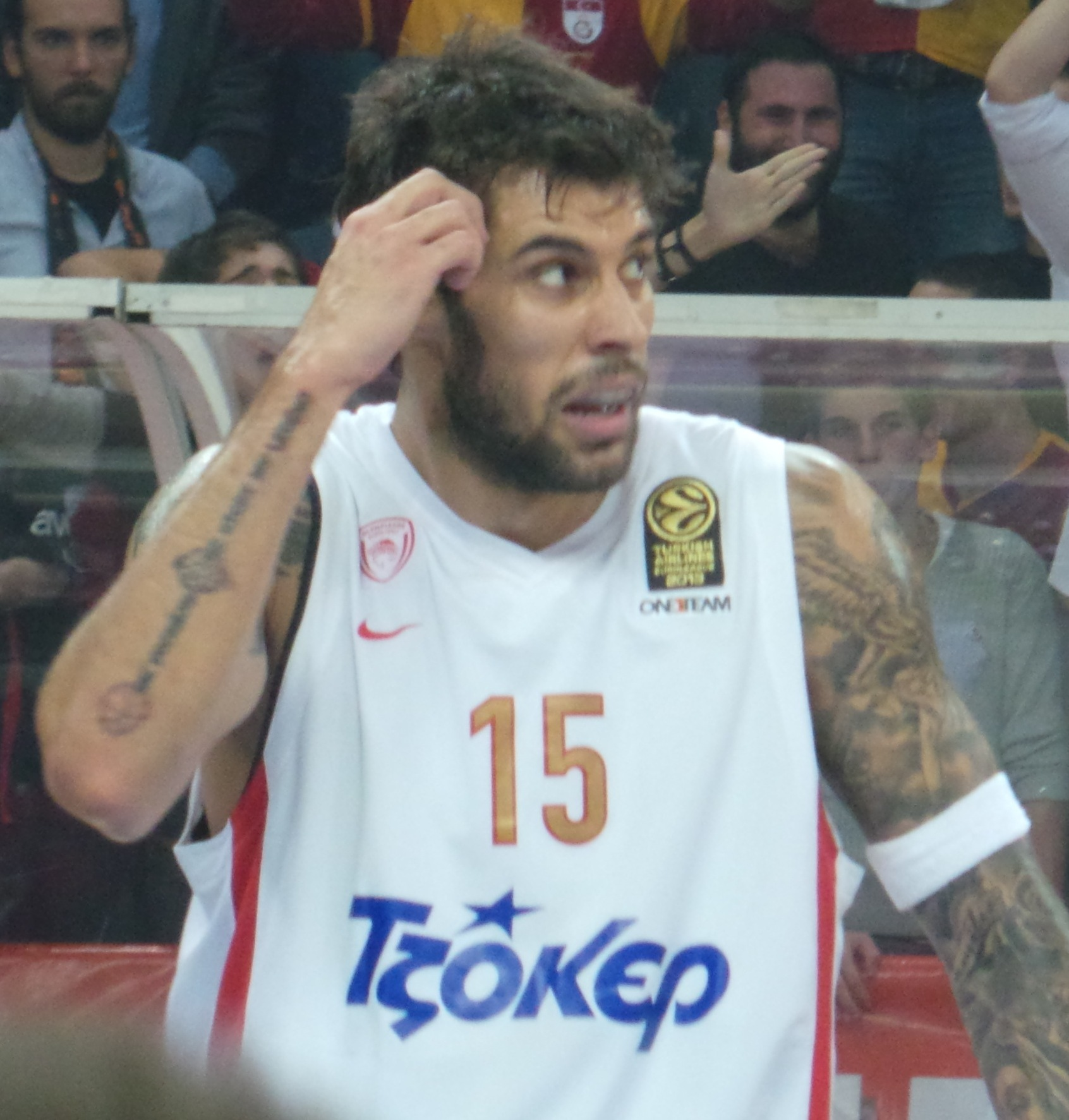 Georgios Printezis